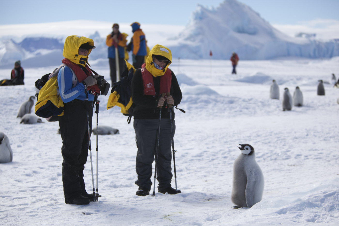 A juvenile Emperor Penguin with people on Snow Hill Island, Antarctica.